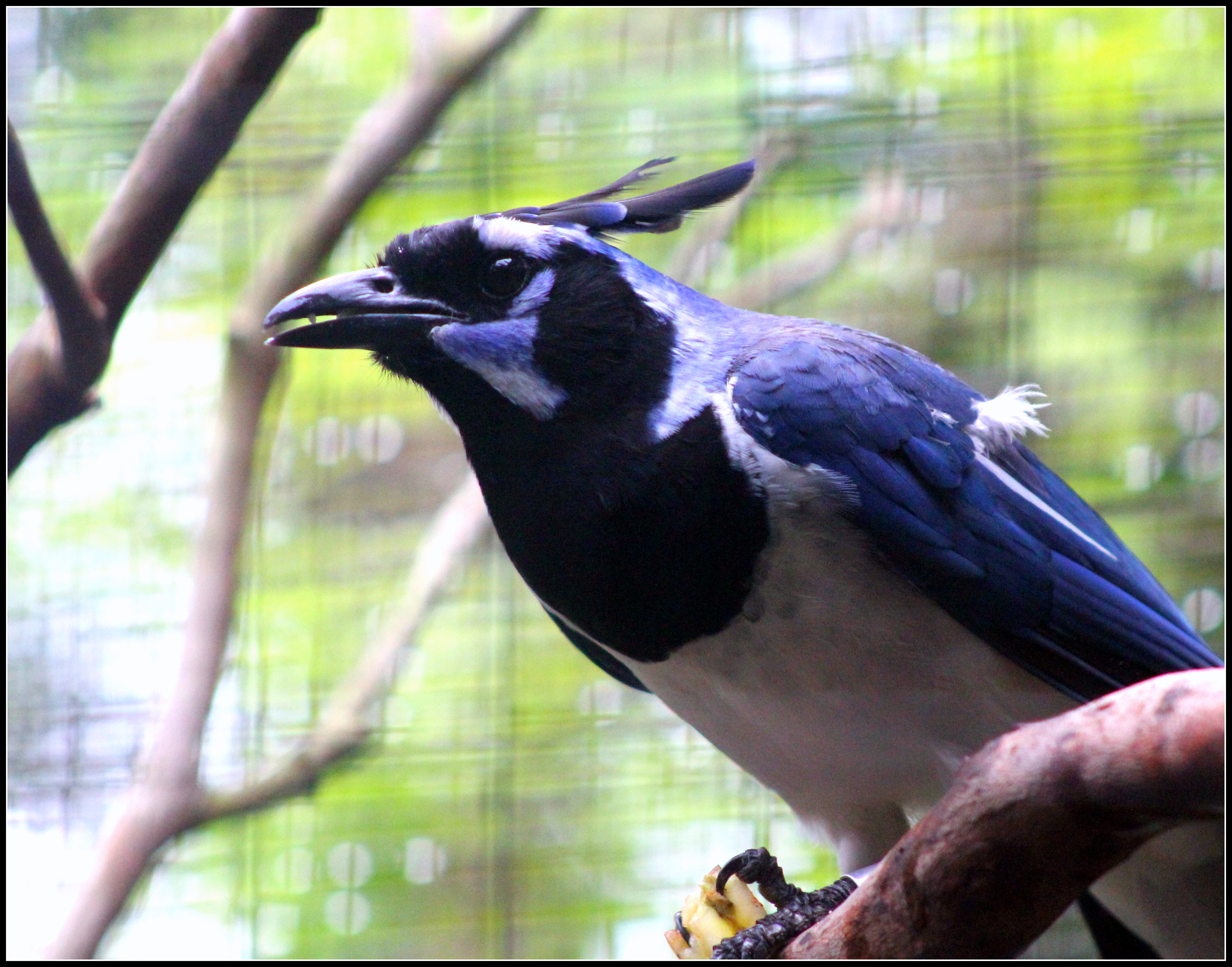 FIELD MARKS-the Black-billed Magpie, the Red-billed Blue Magpie and the closely related White-throated Magpie-Jay, have a comparable tail length. The upperparts are blue with white tips to the tail feathers; the underparts are white. The bill, legs, head, and conspicuous crest are black except for a pale blue crescent over the eyes and a patch under the eye. In juveniles, the crest has a white tip and the patch below the eye is smaller and darker blue than in adults